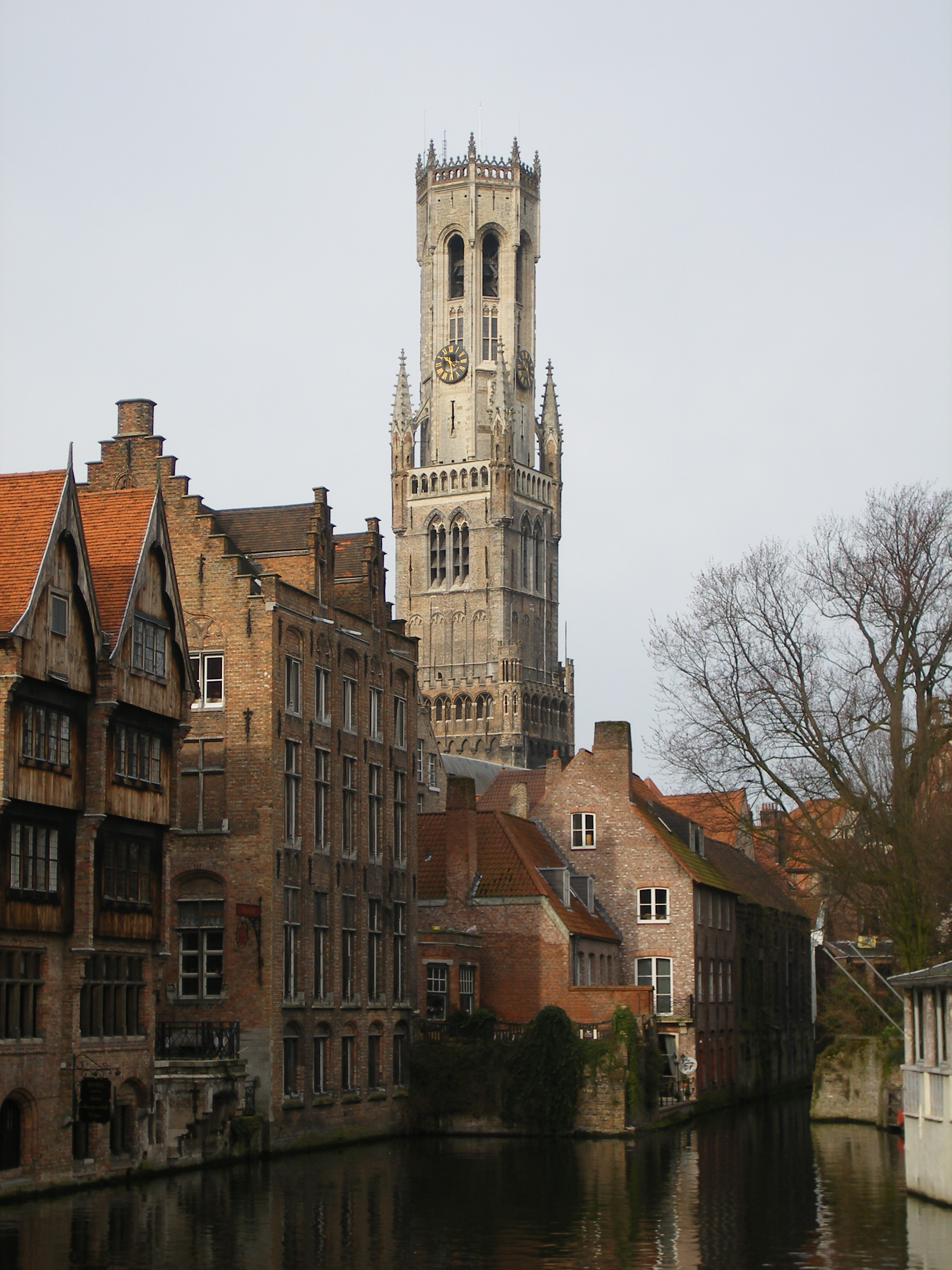 View of belfry from canal at Rozenhoedkaai, Brugge, Belgium